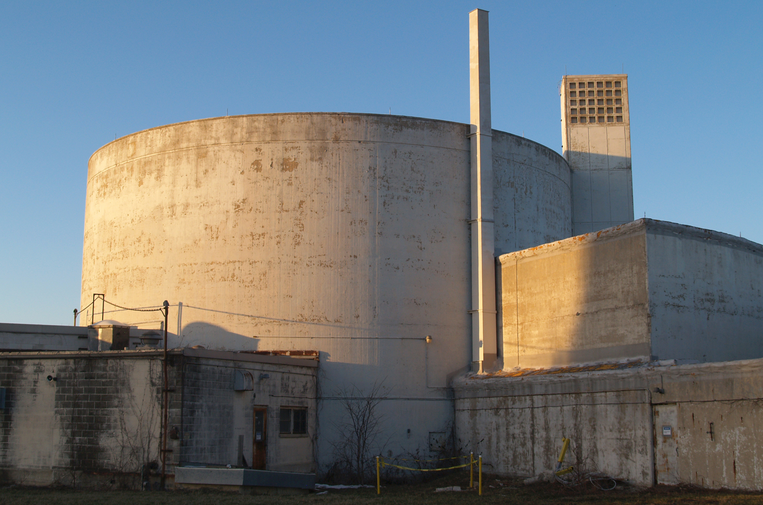 Chicago Pile-5, the last of the original research projects leading to modern nuclear reactors, is set to be demolished by veteran-owned small business Clauss Construction using ARRA funding. Read more » Photo by Dave Jacquè / Courtesy Argonne National Laboratory.